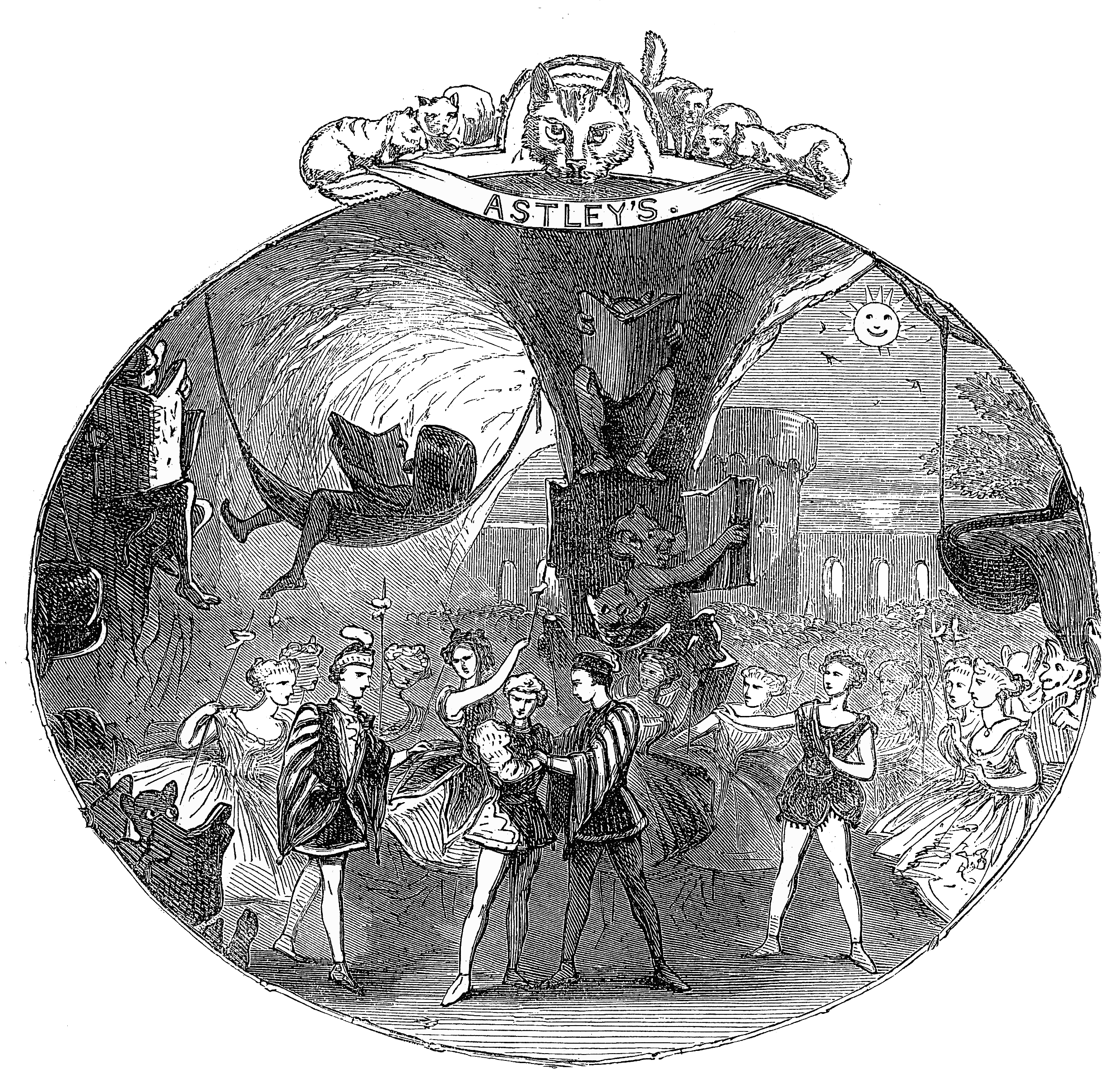 Details from "The Pantomimes of 1866" in the December 29, 1866 Illustrated London News. The original had a much more complicated background - fairies, goblins, etc surrounded the image -, as well as five other pantomimes. However, it proved impossible to take a detail from it that included the background without cutting figures in half, or having it unbalanced and so most of it was erased. Frankly, this is a horrible effort and I should be ashamed of myself. But what could I do?